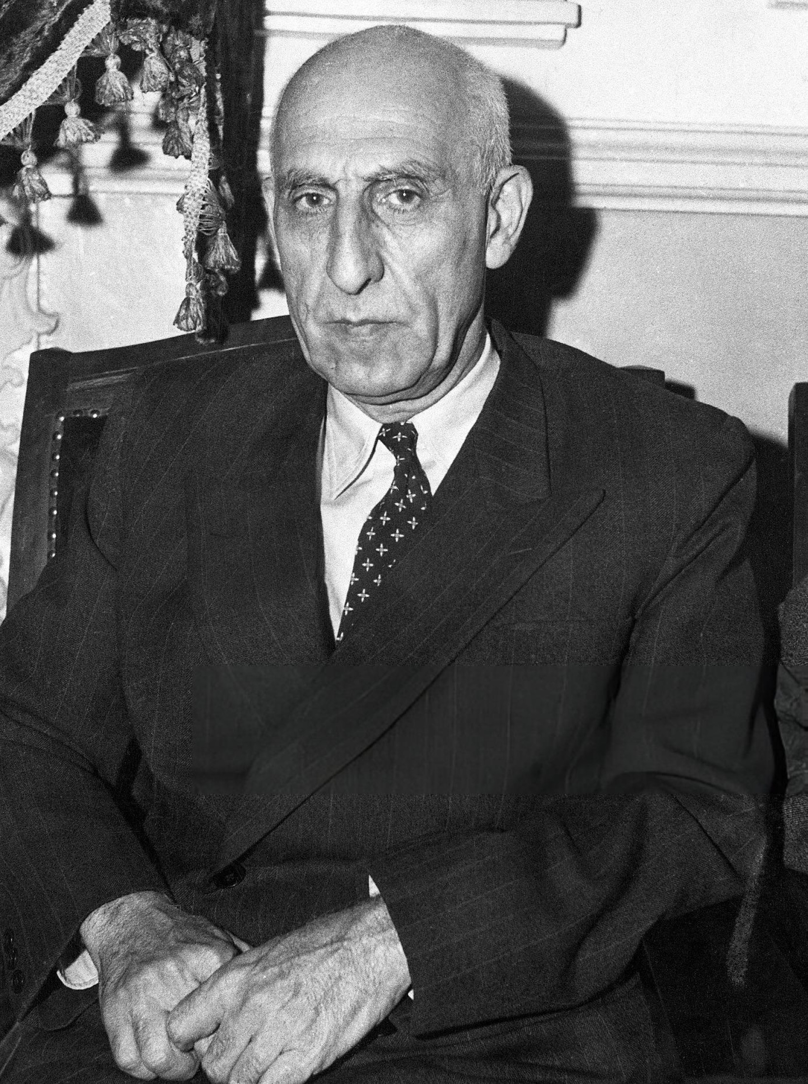 Mohammad Mosaddeq (1882 - 1967), Iranian Prime Minister. Mohammad Mosaddeq (1882-1967), Iranian Prime Minister